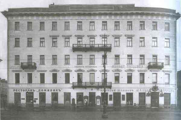 Facade of the building located Nevsky prospect, 24 with the signage of the Cafe Dominic.